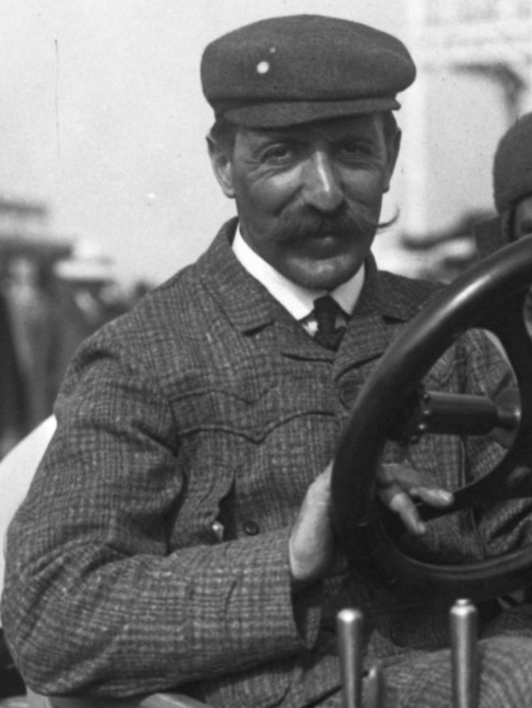 Henri Cissac in his Panhard-Levassor at the 1908 French Grand Prix at Dieppe.